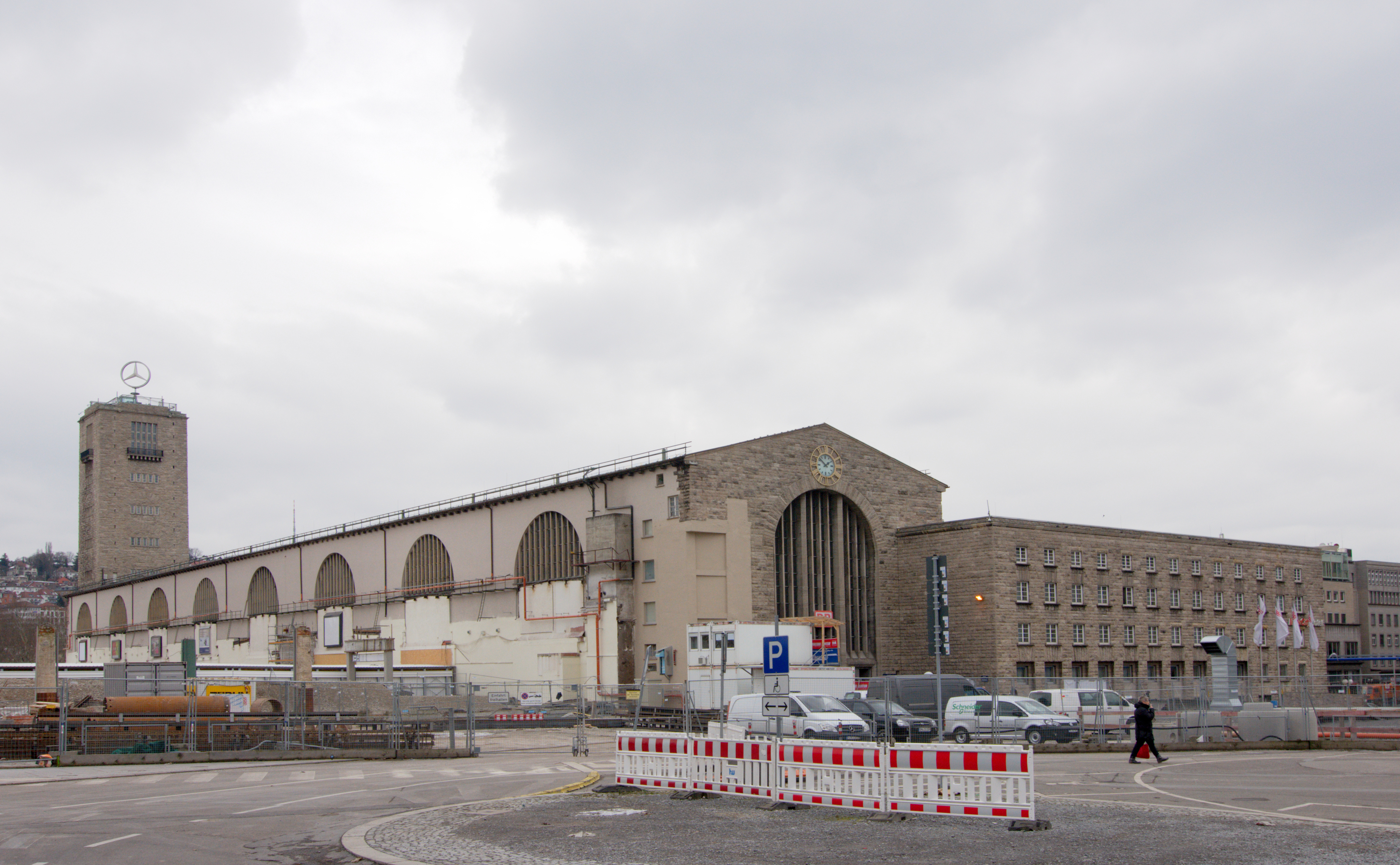 Stuttgart Main Station seen from northeast, February 2015